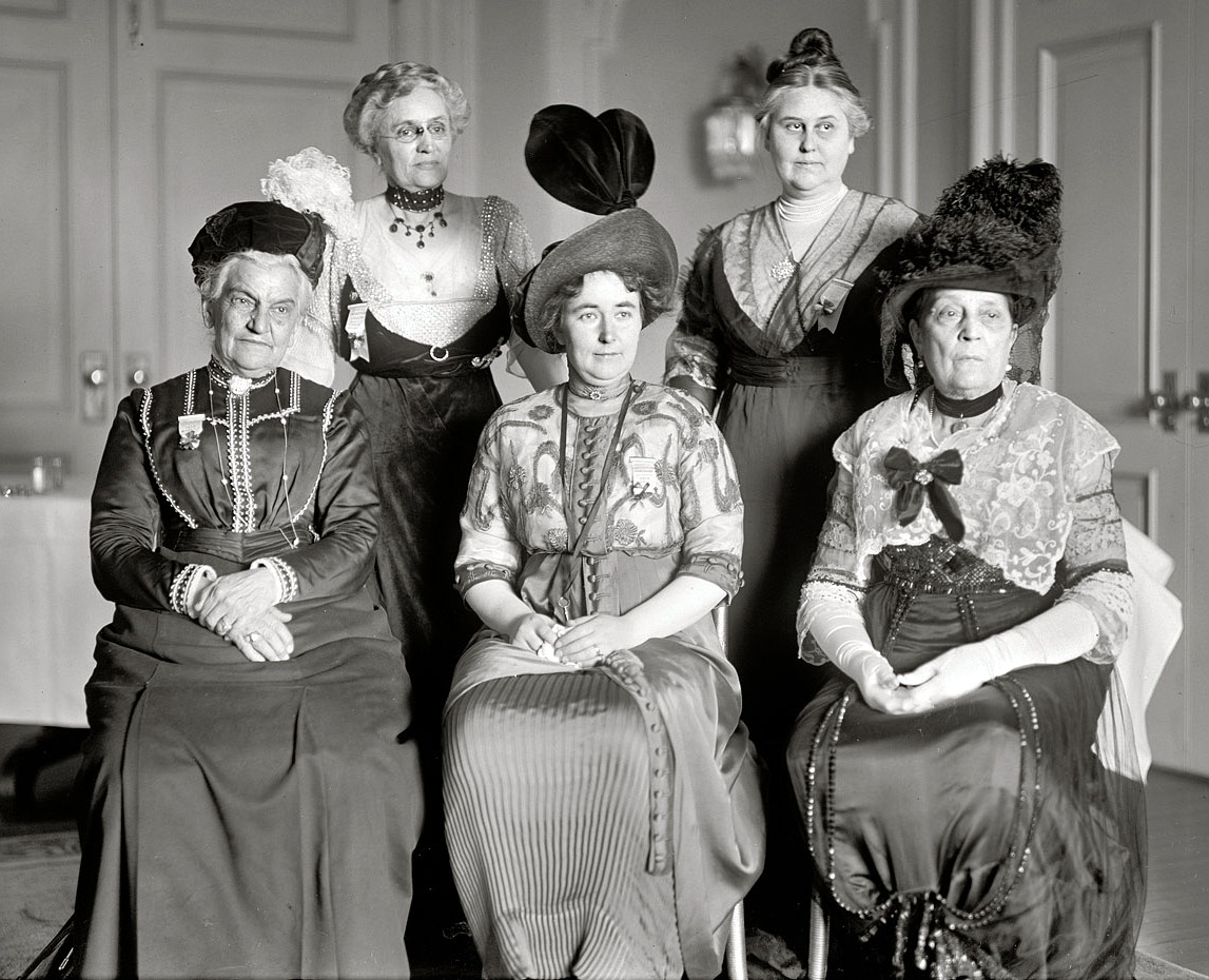 International Anti-Vivisection Congress. Back row: Mrs. Clinton Pichney Farrell, Mrs. Florence Pell Warning. Front row: Mrs. Caroline E. White, Miss Lizzy Lind af Hageby, Mrs. R. G. Ingersoll.